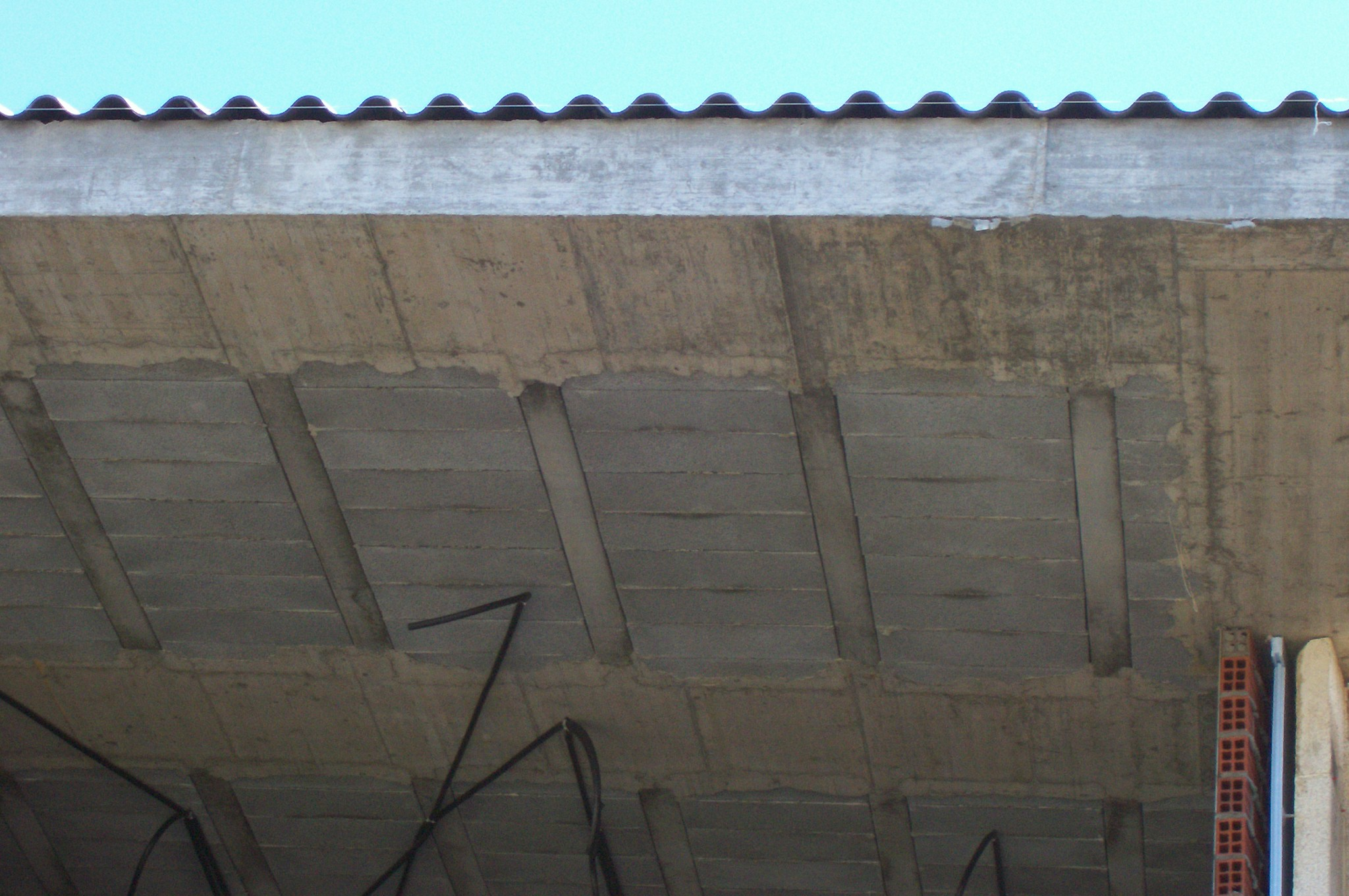 Concrete slab made of reinforced beams and masonry units